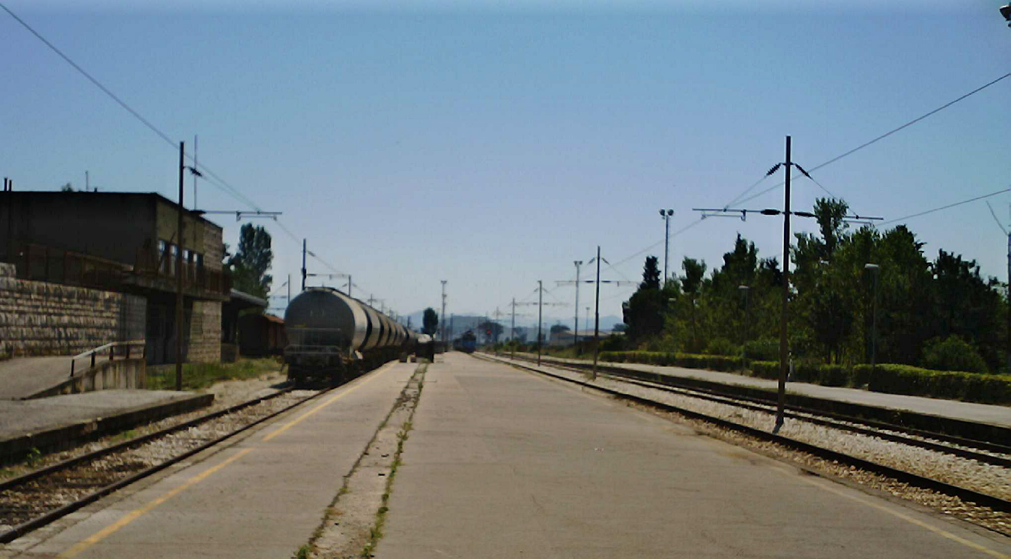 Bahnhof Ploce